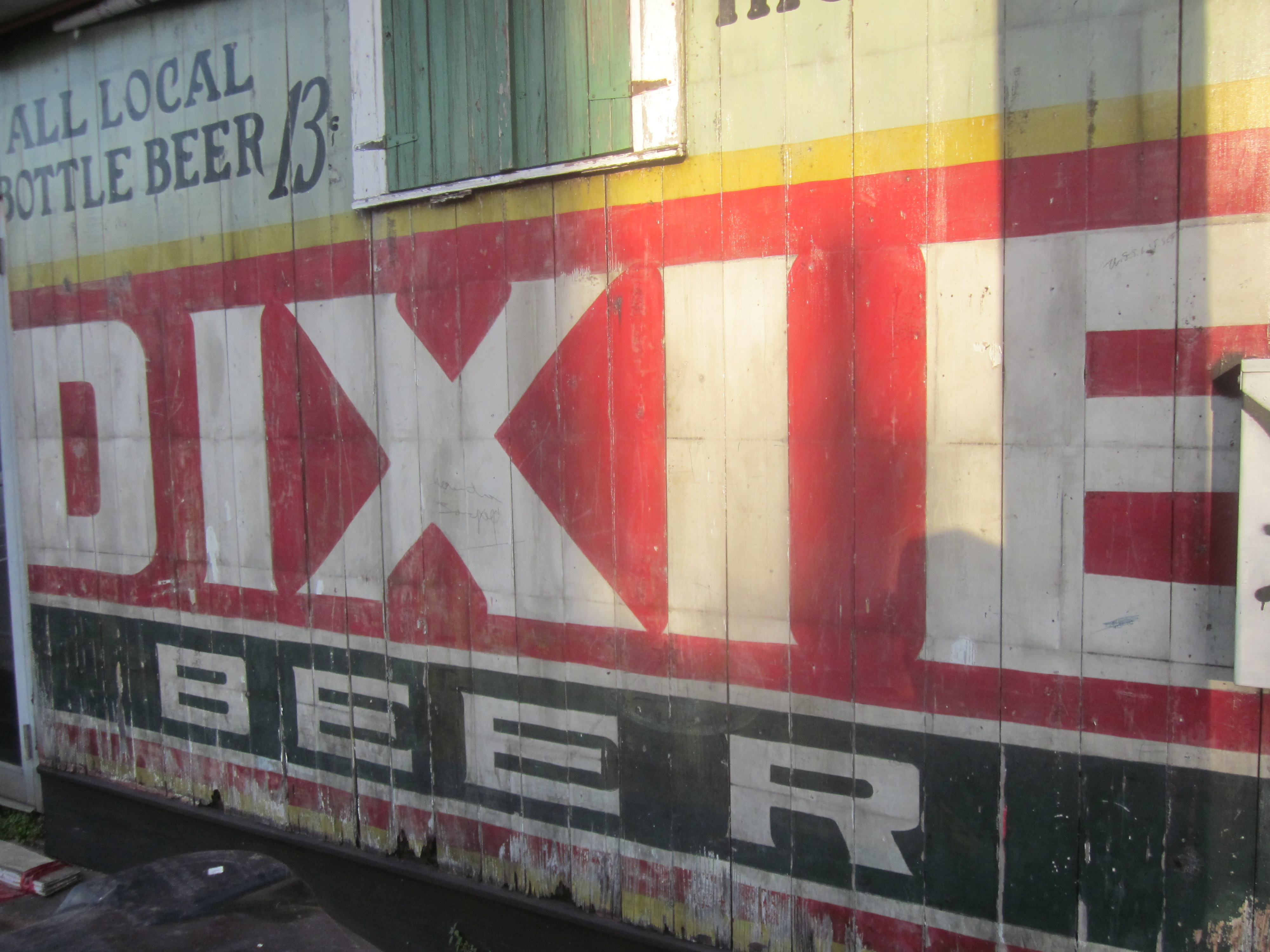 Franklin Avenue, lower Faubourg Marigny, New Orleans. Renovations to building revealed old beer advertising painted on siding more than half a century ago.